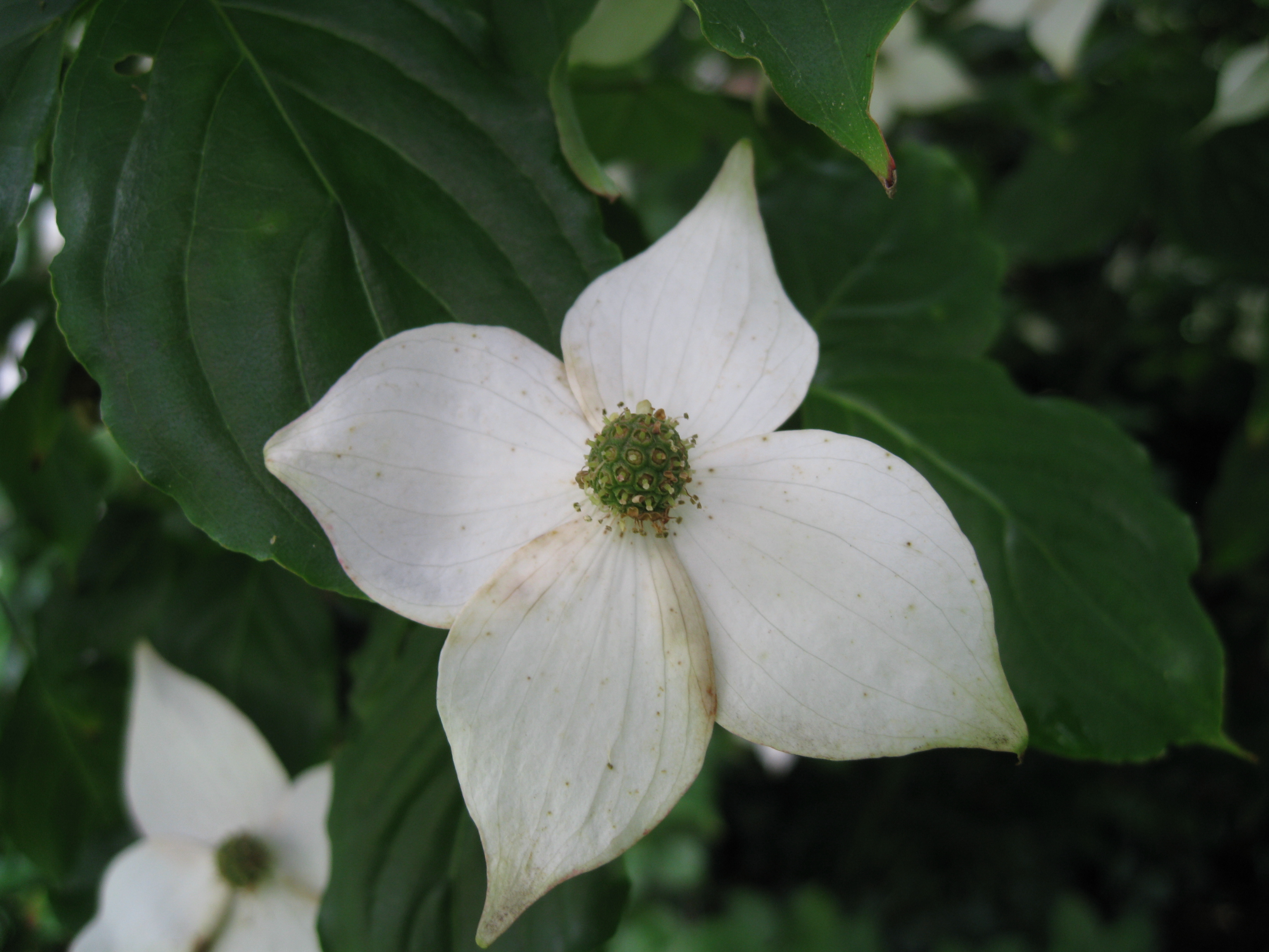 Cornus kousa (Pseudanthium)